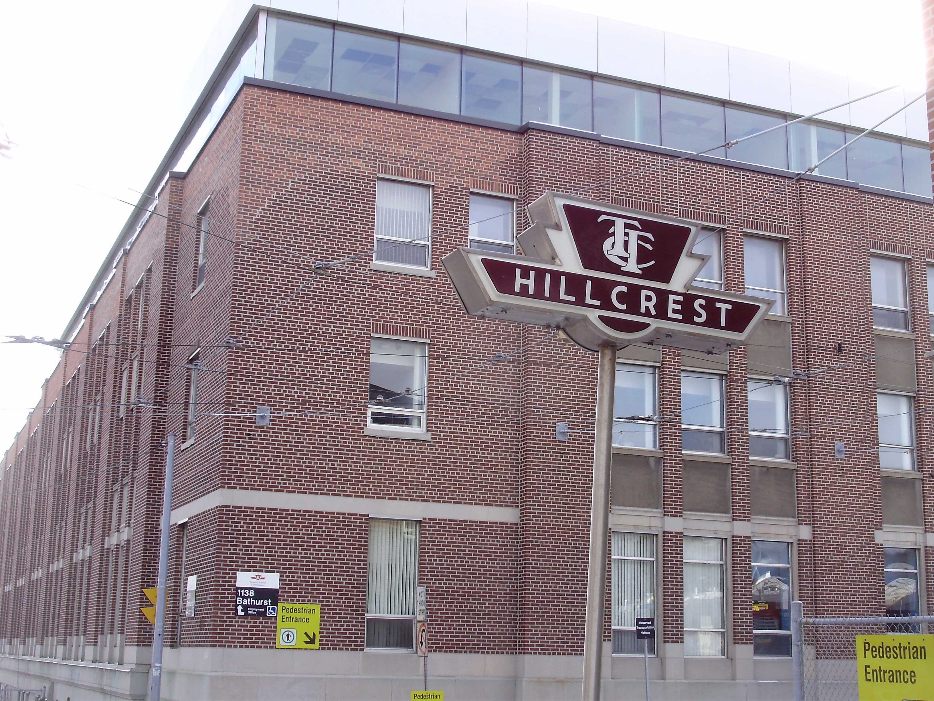 One of the many buildings that comprise the Toronto Transit Commission's Hillcrest Complex, a major bus and streetcar maintenance facility in Toronto, Ontario, Canada.